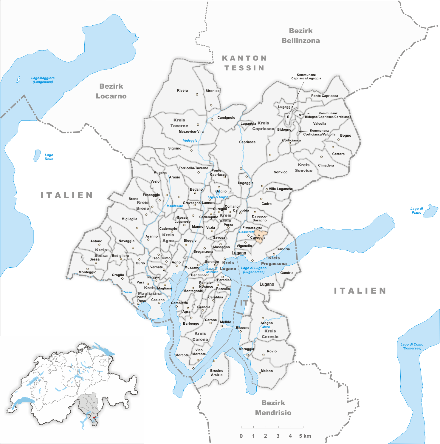 Municipality Cureggia Artist: Tschubby